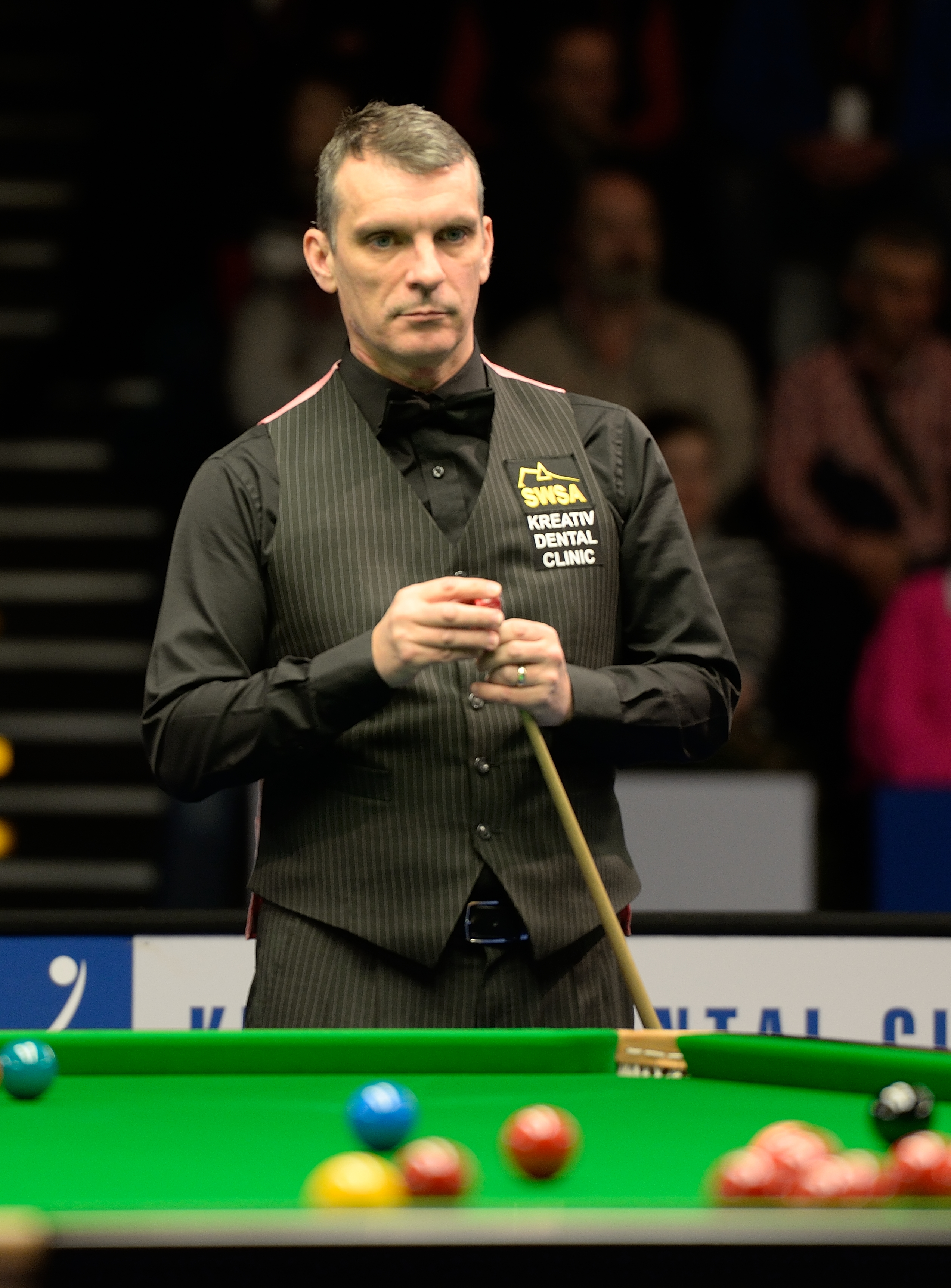 Picture taken in Berlin during the Snooker German Masters in 2015. Mark Davis.